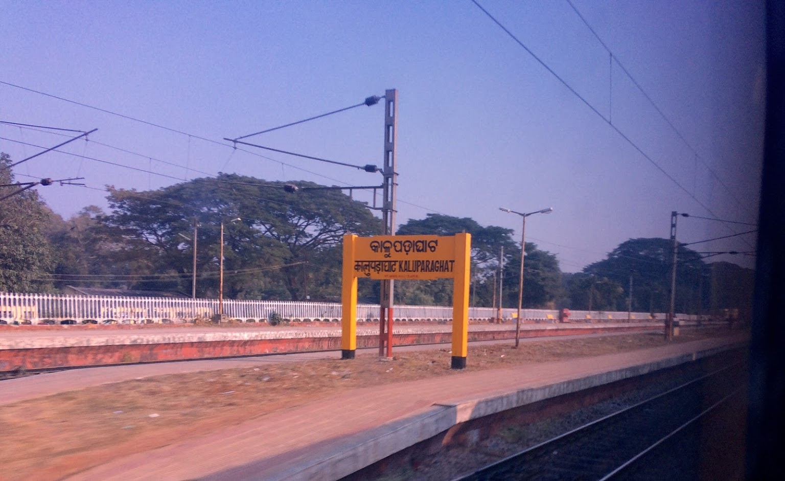 This is the Picture of Kalupara Ghat railway station